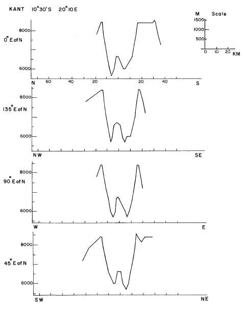 Kant crater cross section